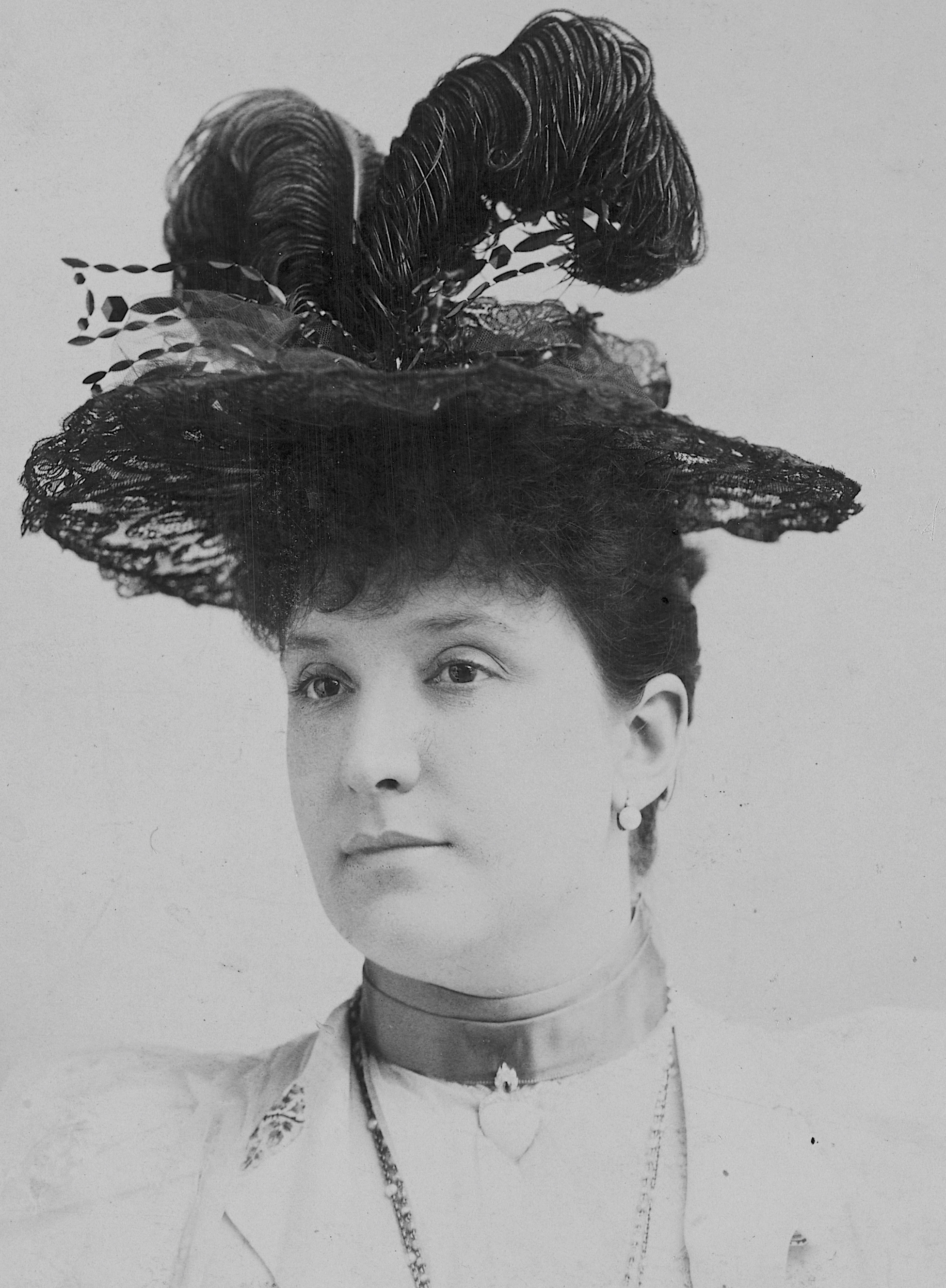 Dame Nellie Melba, c. 1892